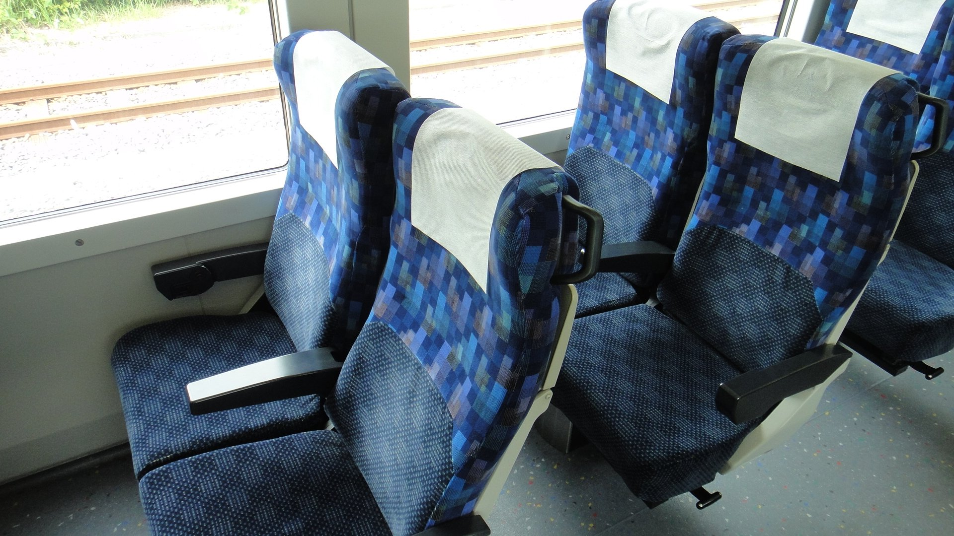 Seating of a JR East E257-500 series EMU on a Wakashio limited express service, taken at Katsuura Station